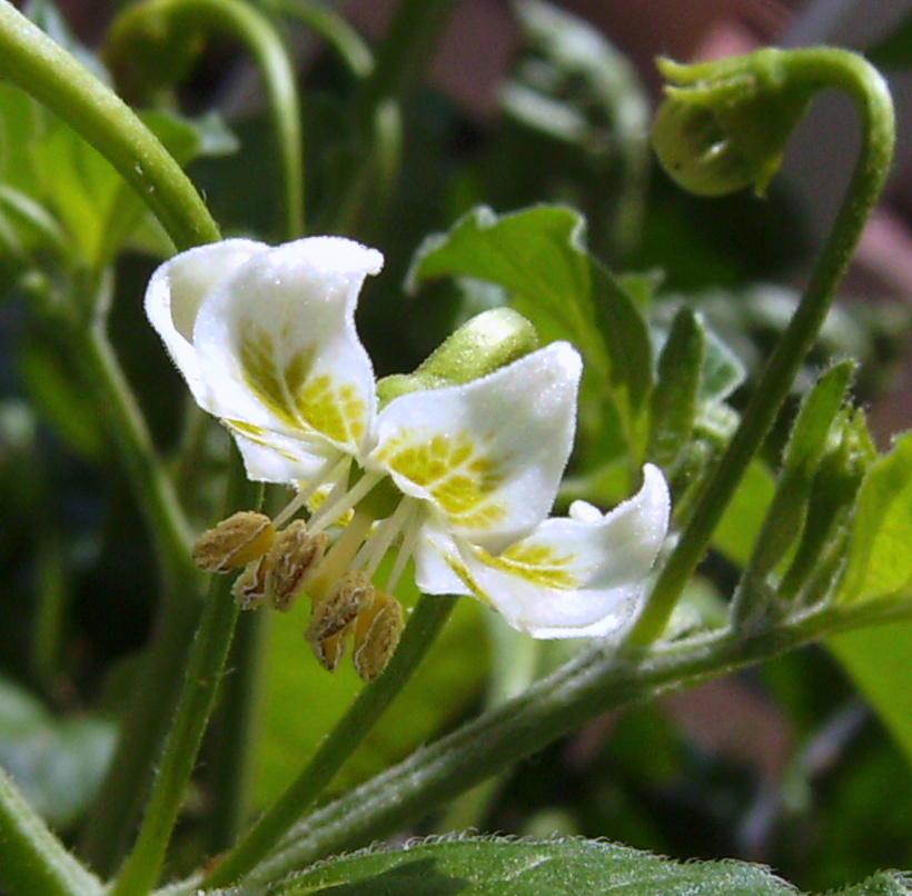 Capsicum baccatum flower,Bishop's crown variety, Barcelona